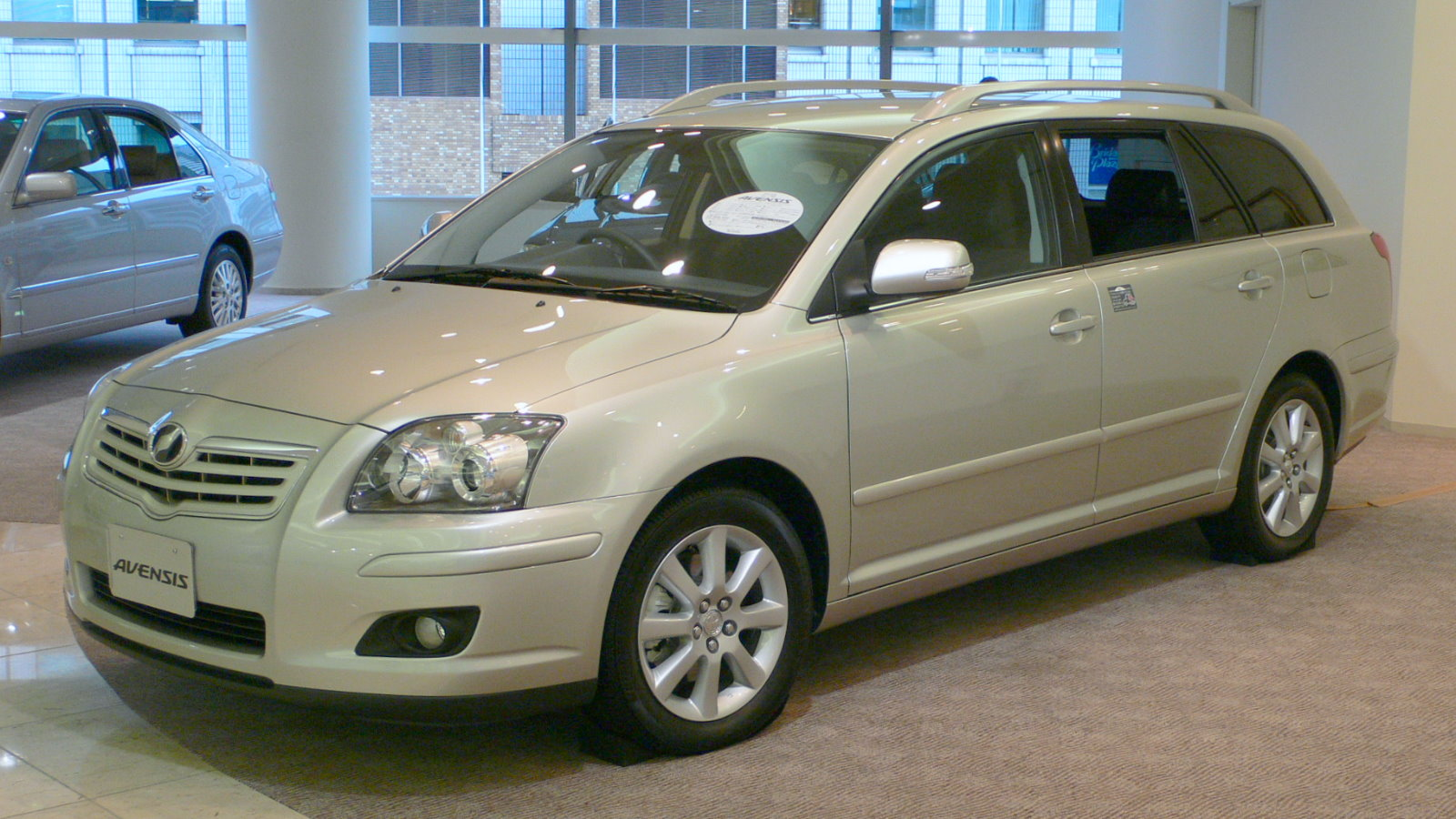 2nd generation Toyota_Avensis(2006) taken at Showroom of Toyota-AMLUX